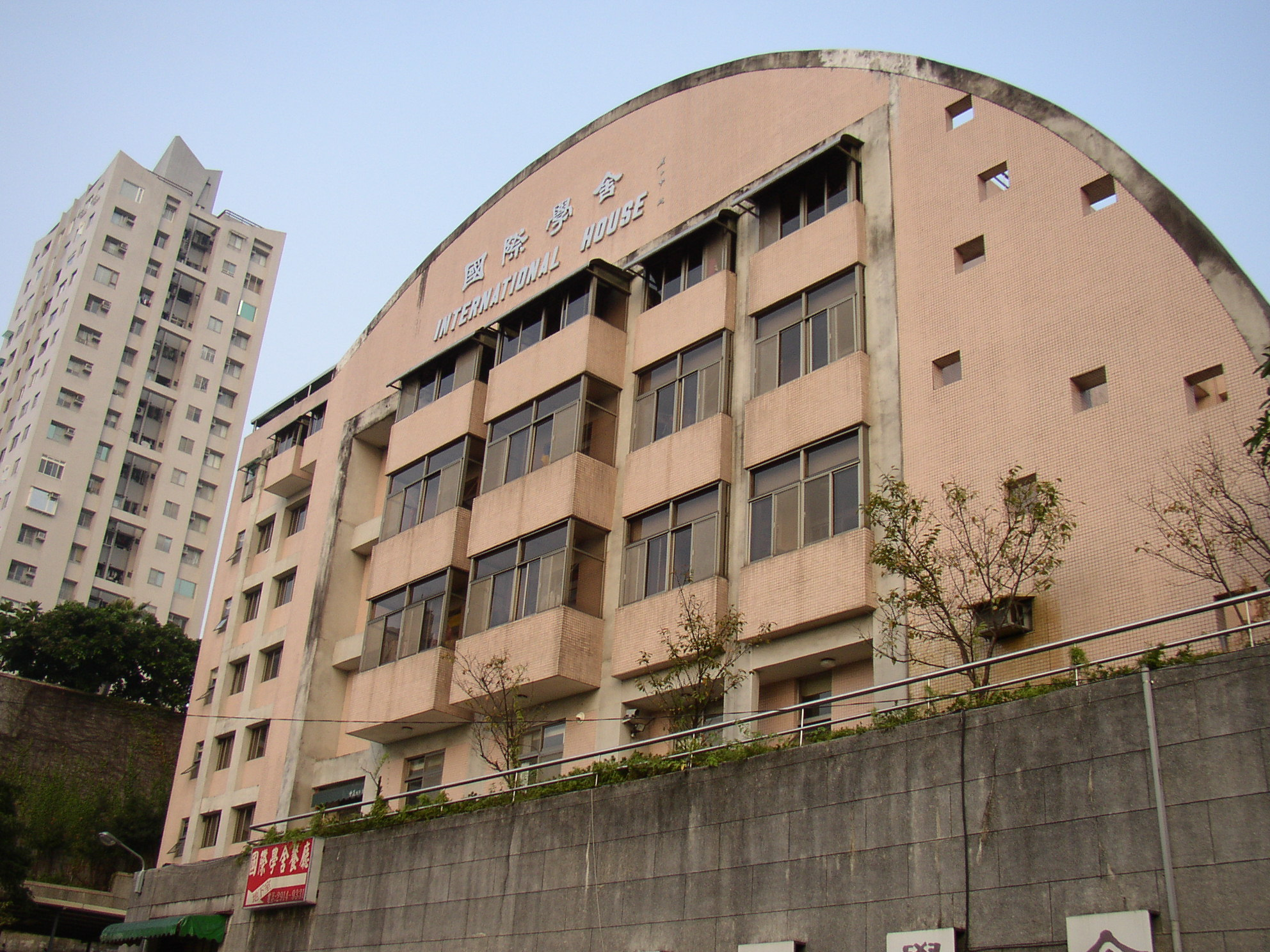 International house of Taipei, Taken by ResTpeTw on Oct. 15th 2006.